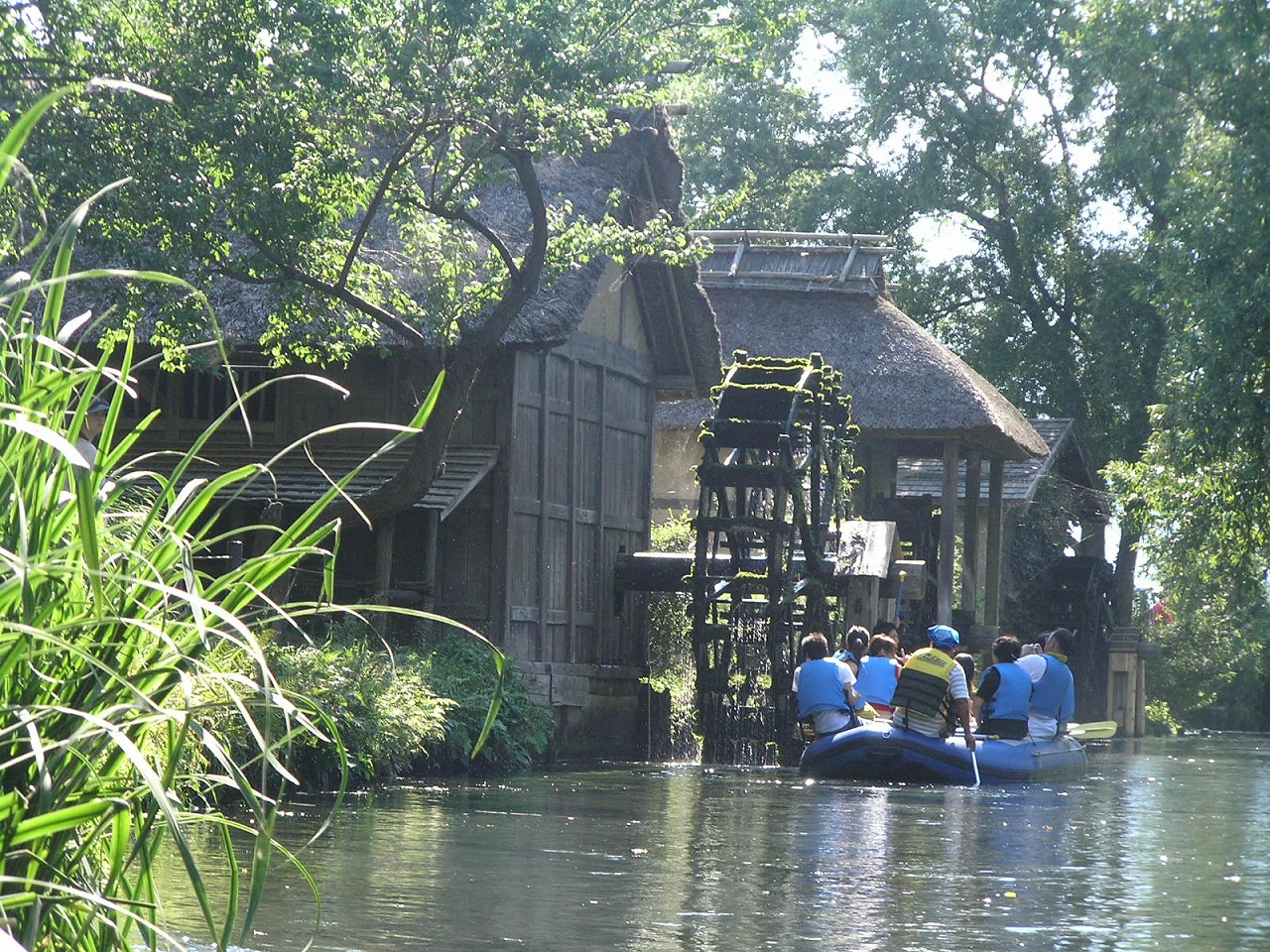 Daio Wasabi Garden, Akira Kurosawa, "Dreams"